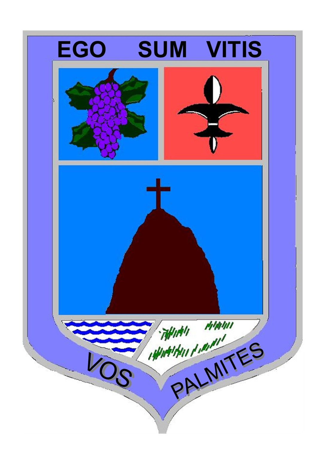 Escudo del Municipio de Ojocaliente, Zacatecas.